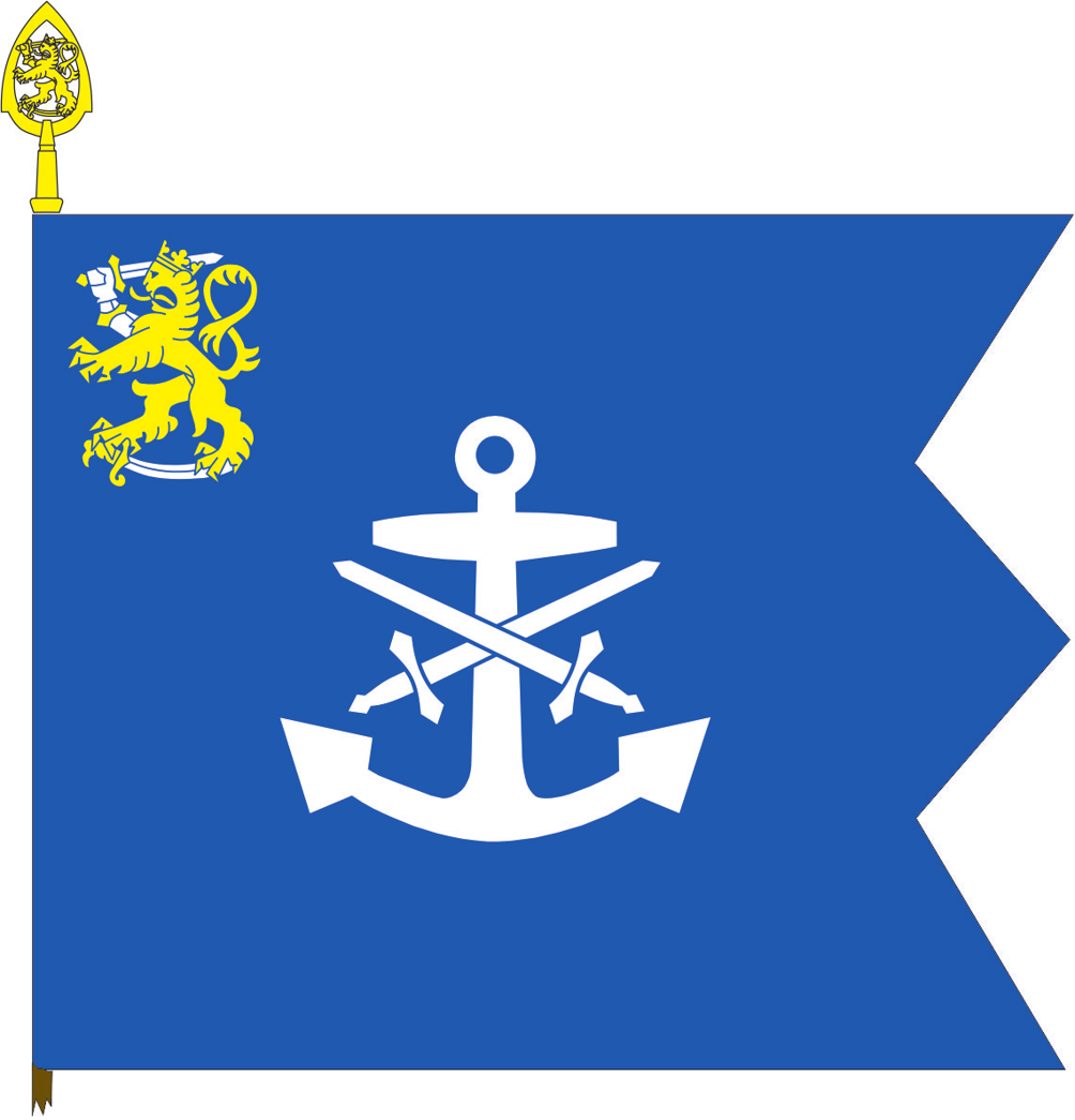 Flag of the Coastal Fleet, Finnish Navy